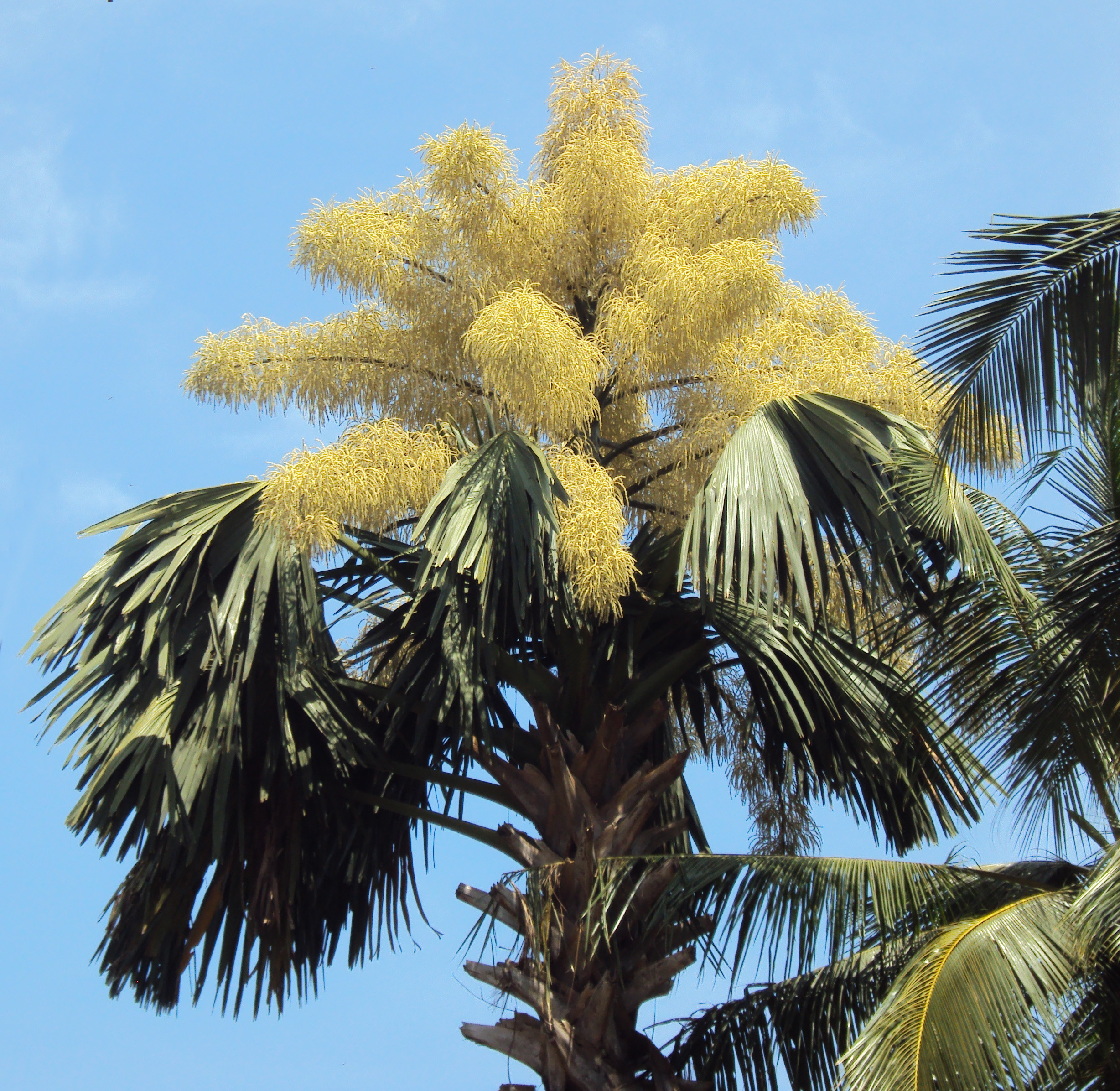 Corypha umbraculifera